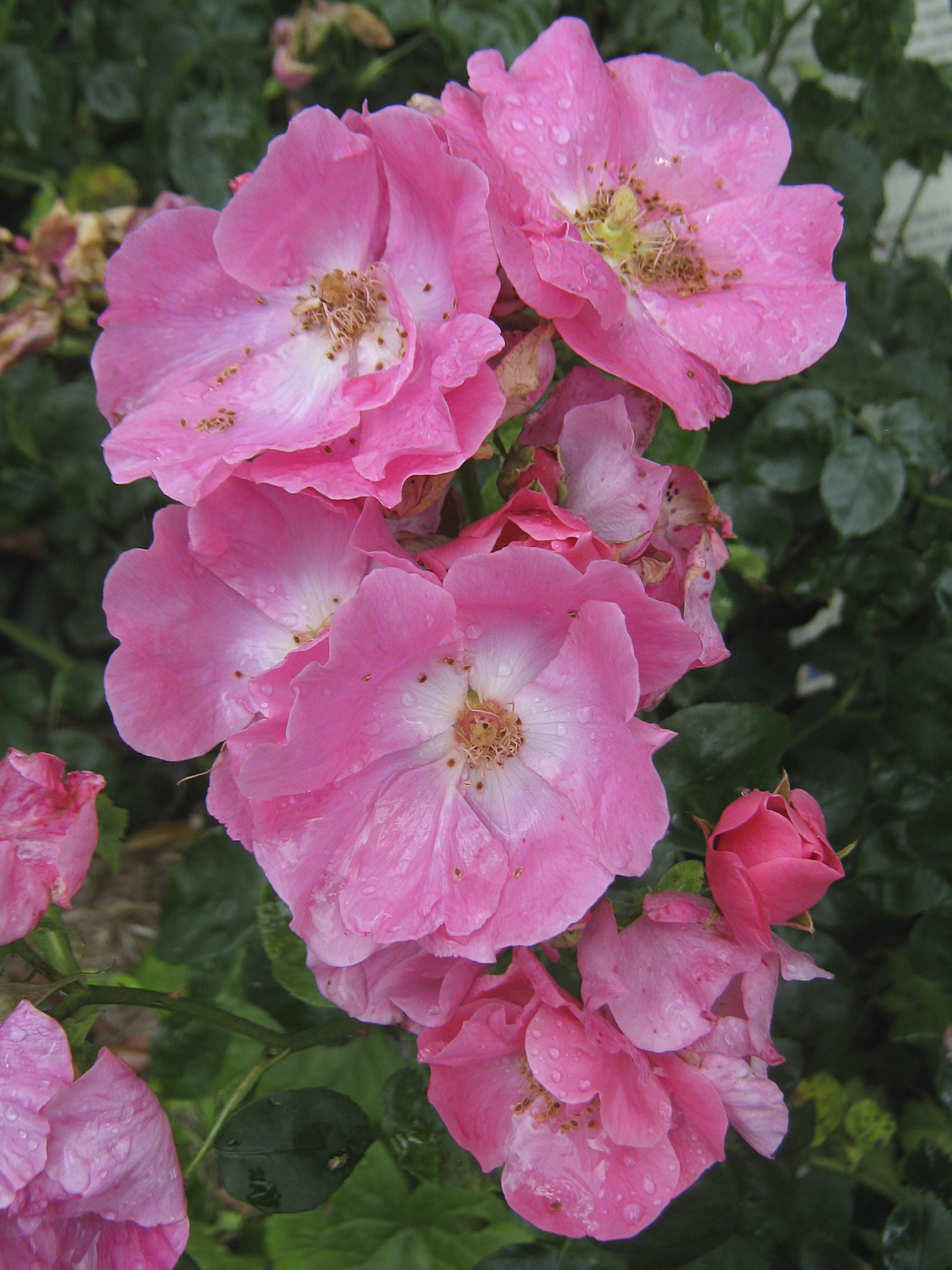 Rose 'Mary Guthrie', Polyantha by Alister Clark 1929; Photographed in the Alister Clark Memorial Rose Garden, Bulla, Victoria